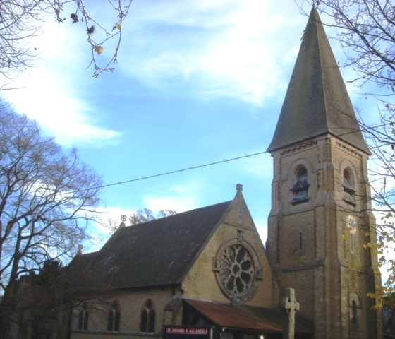 St Michael and All Angels Church, Lowfield Heath, Crawley, West Sussex, England. The former Anglican church in the former village of Lowfield Heath. Now a Seventh-Day Adventist Church. Listed at Grade II* by English Heritage (ref #363337)